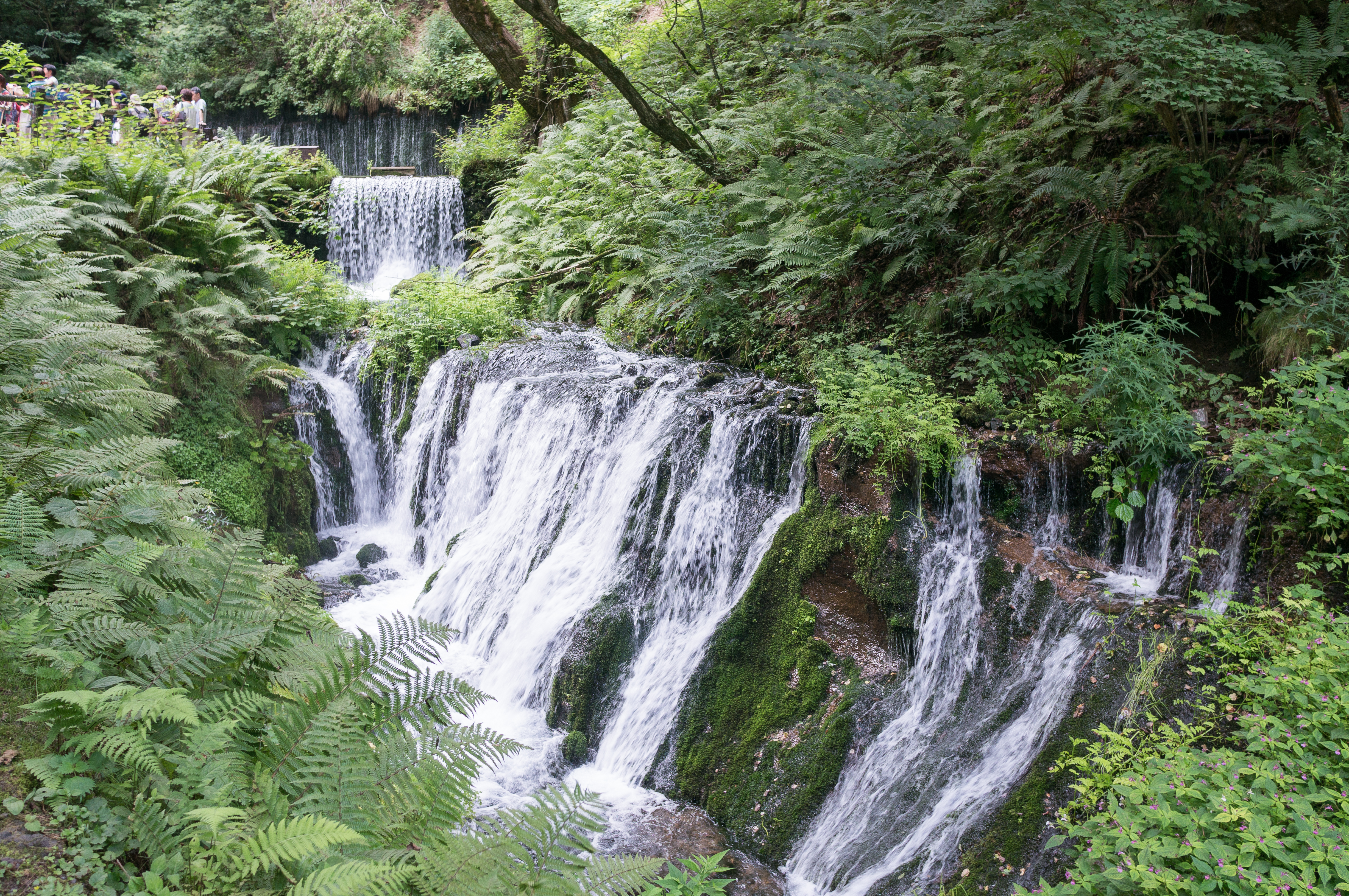 Shiraito Falls in Karuizawa, Nagano Prefecture, Japan.